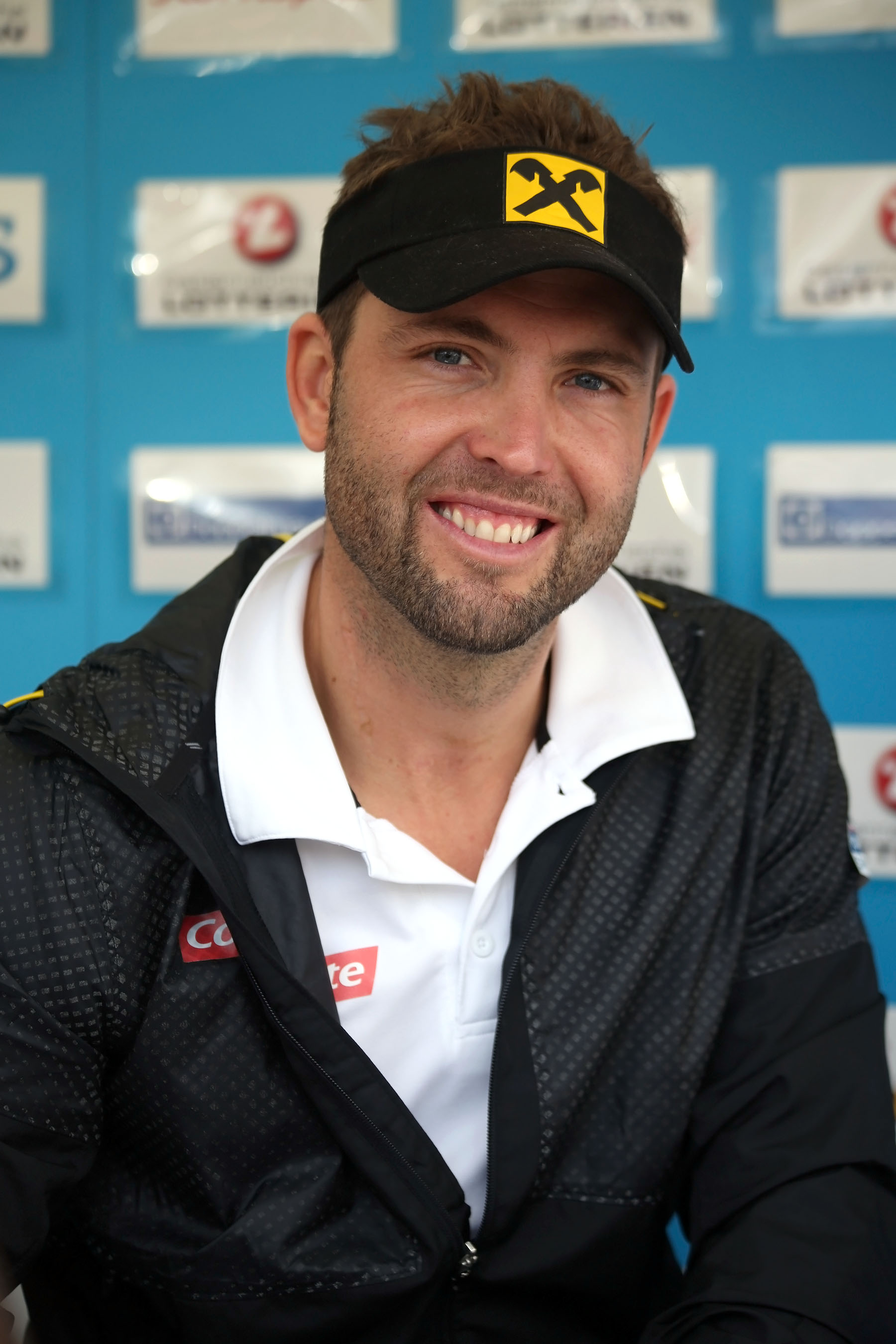 Andreas Prommegger at the Tag des Sports (Day of Sports) 2013 on Heldenplatz in Vienna, Austria.